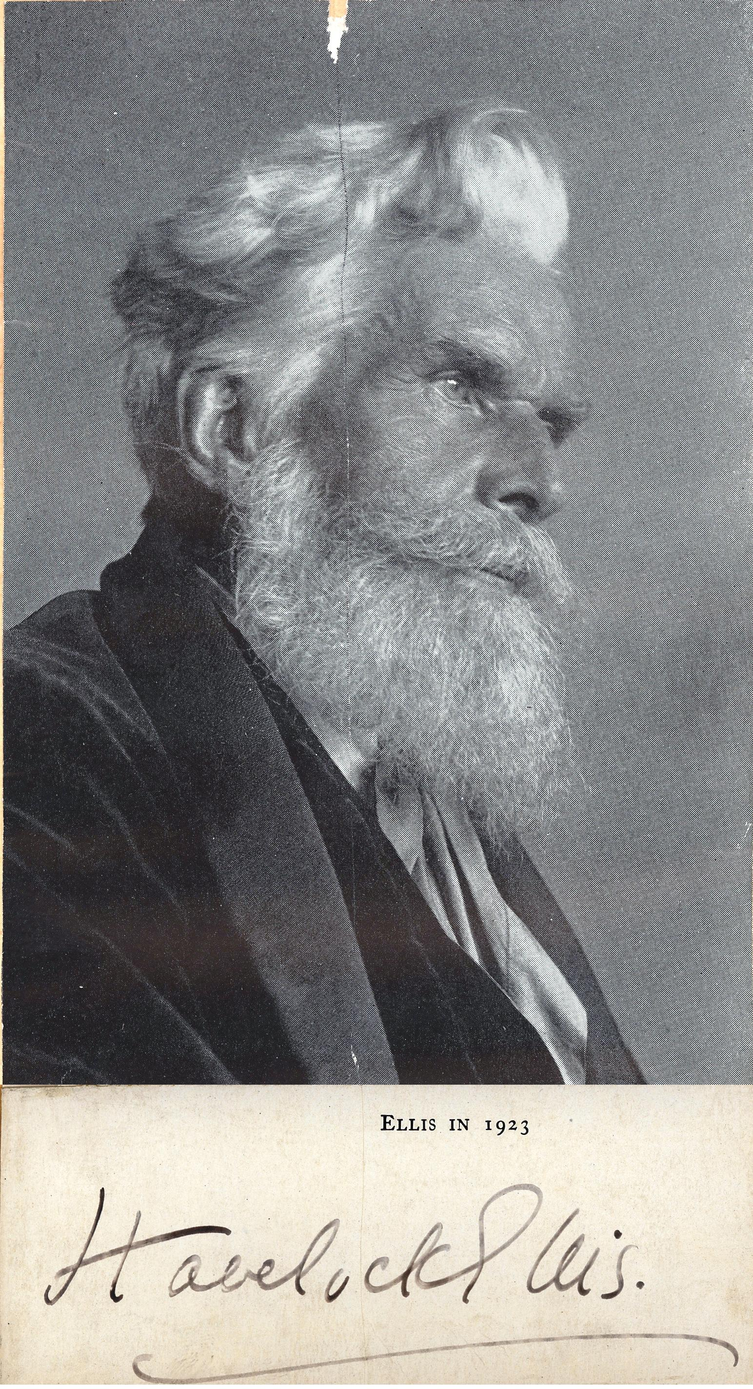 Creator/Photographer: Unidentified photographer Medium: Black and white photographic print Dimensions: 14.2 cm x 9.7 cm Date: 1923 Persistent URL: [1] Repository: Smithsonian Institution Libraries Collection: Scientific Identity: Portraits from the Dibner Library of the History of Science and Technology - As a supplement to the Dibner Library for the History of Science and Technology's collection of written works by scientists, engineers, natural philosophers, and inventors, the library also has a collection of thousands of portraits of these individuals. The portraits come in a variety of formats: drawings, woodcuts, engravings, paintings, and photographs, all collected by donor Bern Dibner. Presented here are a few photos from the collection, from the late 19th and early 20th century. Accession number: SIL14-E1-12